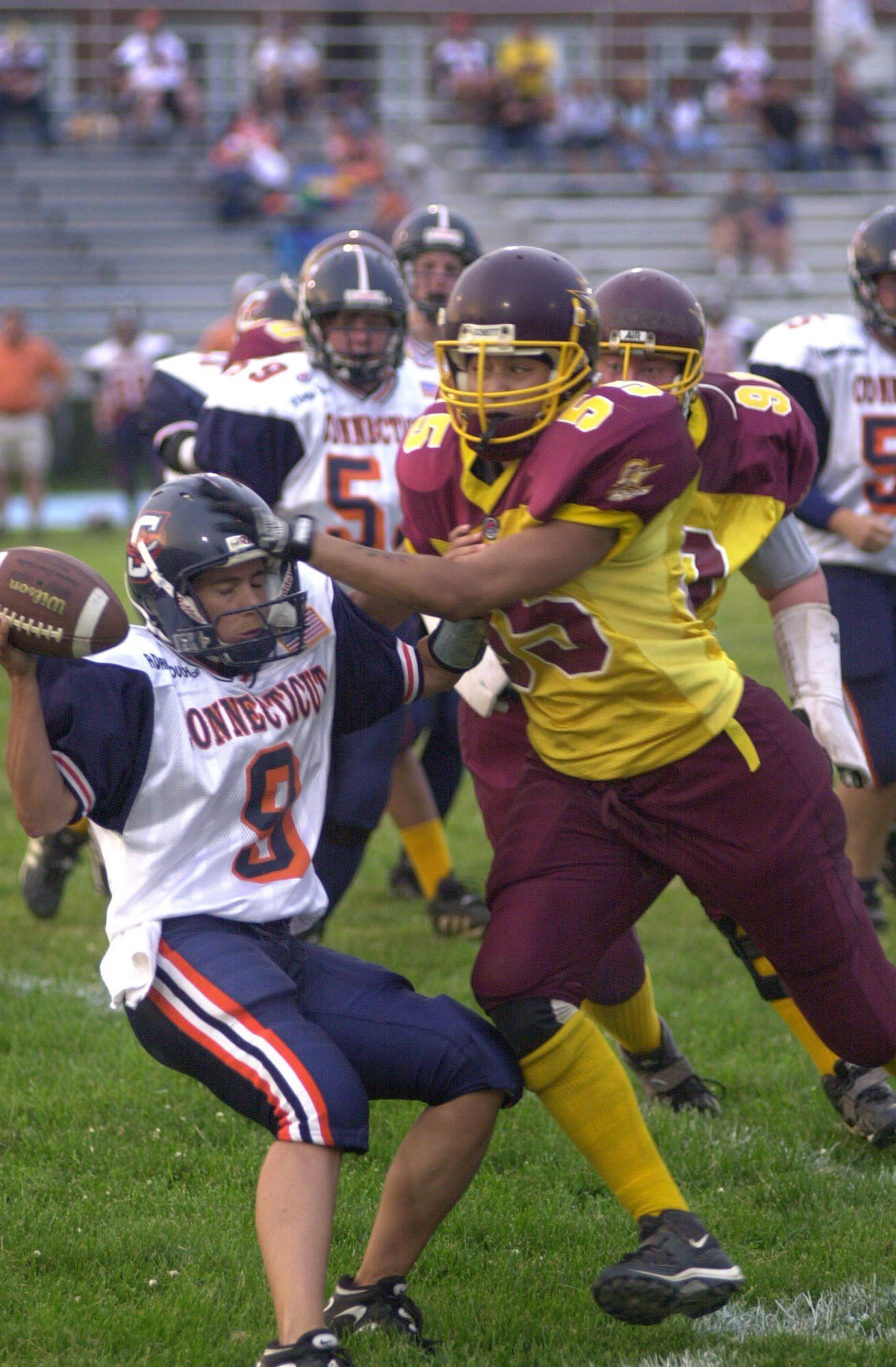 Takiyah "TK" Washington, defensive end for the D.C. Divas sacks the Connecticut Crush's Donna Bruce during the first quarter of the Divas-Crush playoff football game June 28 in Washington, D.C. The Divas beat the Crush 76-0 to advance to the second round of the National Women's Football Association playoffs.